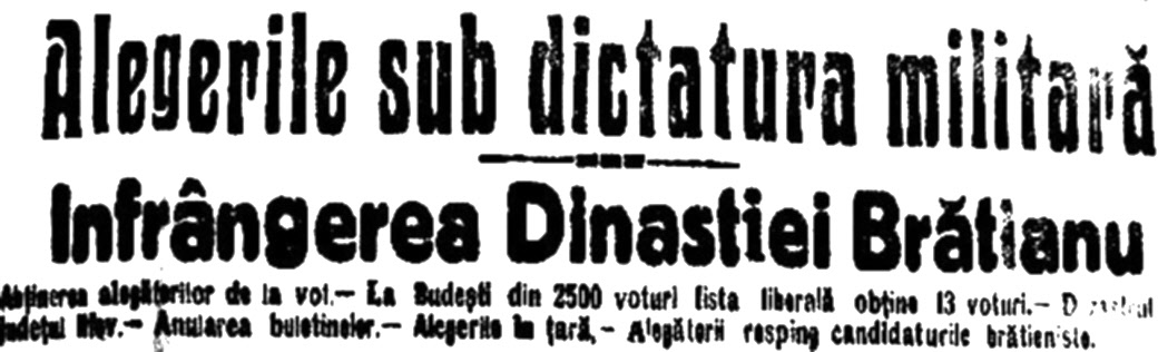 Headline of Îndreptarea newspaper, claiming massive gains for the People's Party in the 1919 Romanian election, and moreover the quashing of the governing National Liberal Party. It reads: Alegerile sub dictatura militară. Infrângerea Dinastiei Brătianu, "Elections under the Military Dictatorship. The Defeat of the Brătianu Dynasty". "Military Dictatorship" refers to the widespread intrusion of military officials in political life, after World War I. "Brătianu Dynasty" is Îndreptarea's tongue-in-cheek reference to the core of National Liberal politicians, including Premier Ion I. C. Brătianu, his brothers and cousins.This was an overreaching assessment: although the National Liberals lost, Romania was ruled by a coalition government; the People's Party only came to power in 1920.